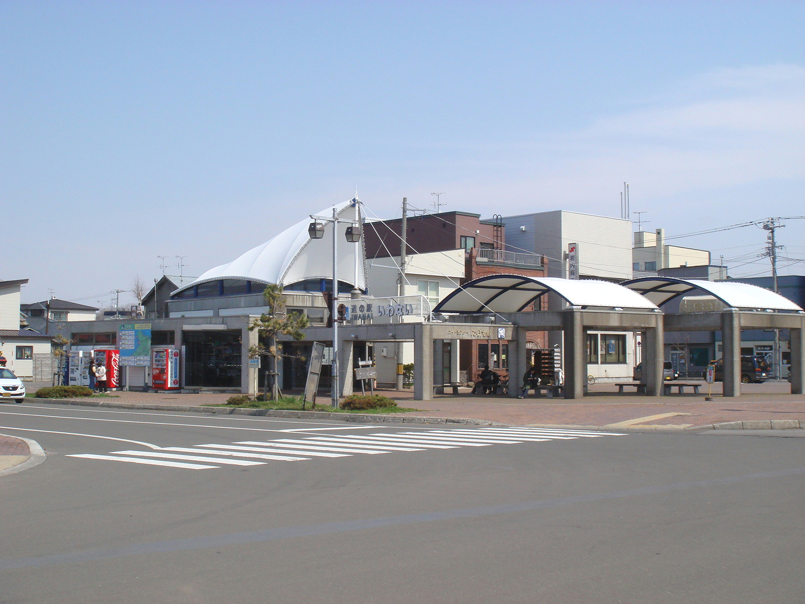 Michinoeki(Roadside Station) Iwanai (Iwanai, Hokkaidō)